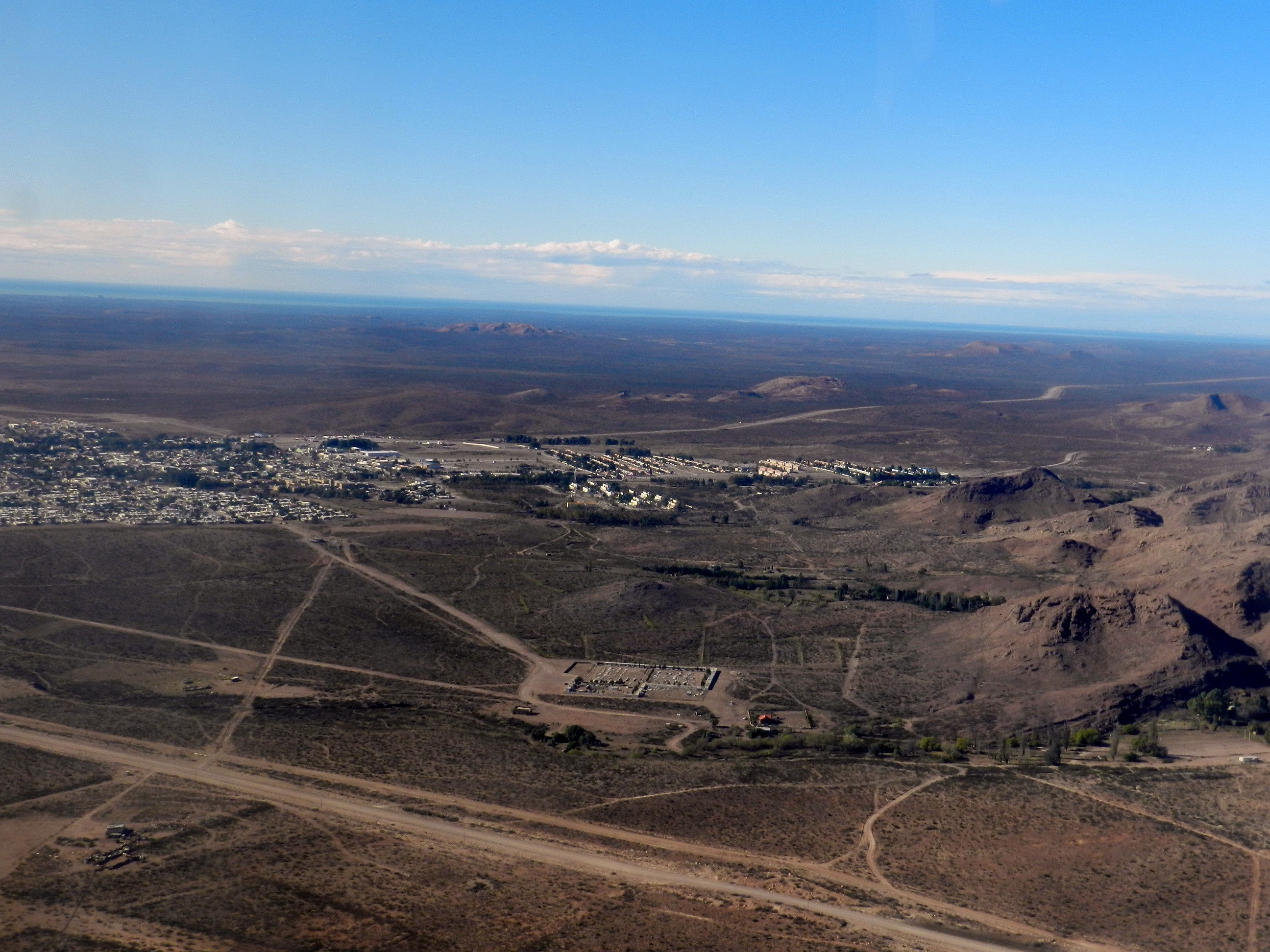 Imagen aérea de la sierra que da origen al nombre de la ciudad de Sierra Grande, Río Negro.